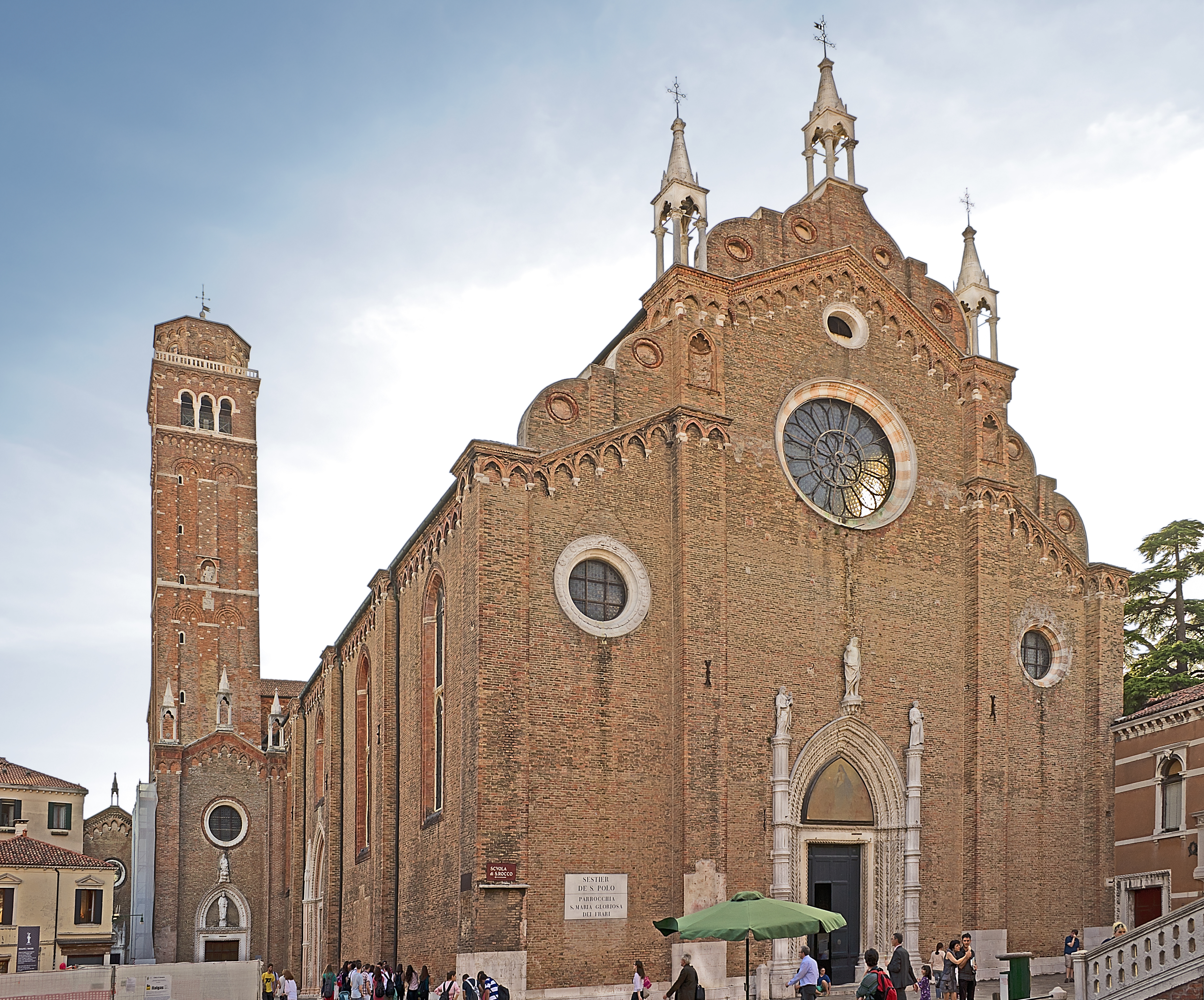 The Basilica di Santa Maria Gloriosa dei Frari, usually just called the Frari in Venice.